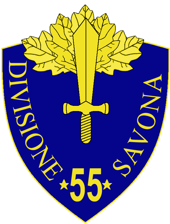 55a Divisione Fanteria Savona insignia, Regio Esercito, Italy, WWII